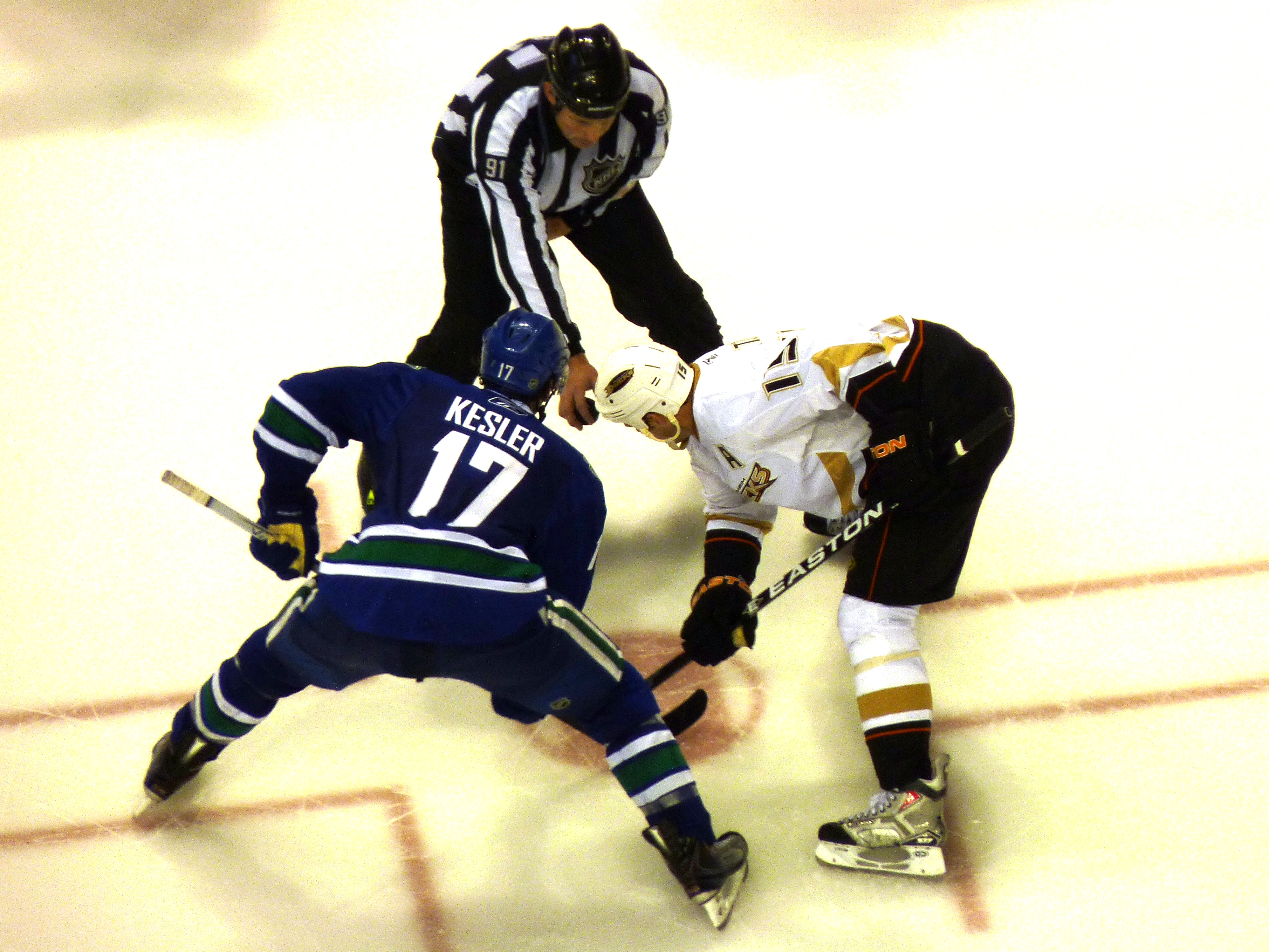 Centres Ryan Kesler of the Vancouver Canucks and Ryan Getzlaf of the Anaheim Ducks face-off during a game on December 16, 2009.